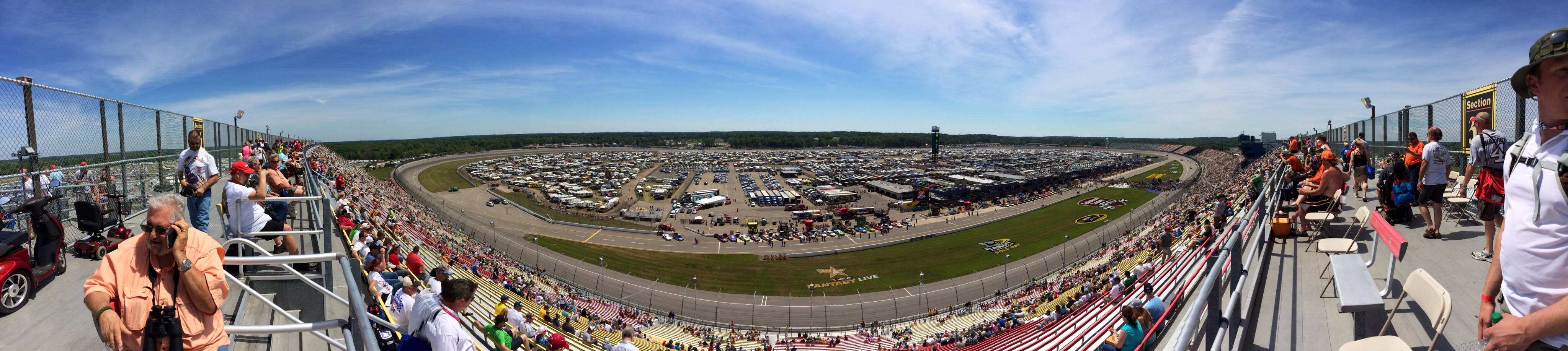 Michigan International Speedway before the 2014 Quicken Loans 400.